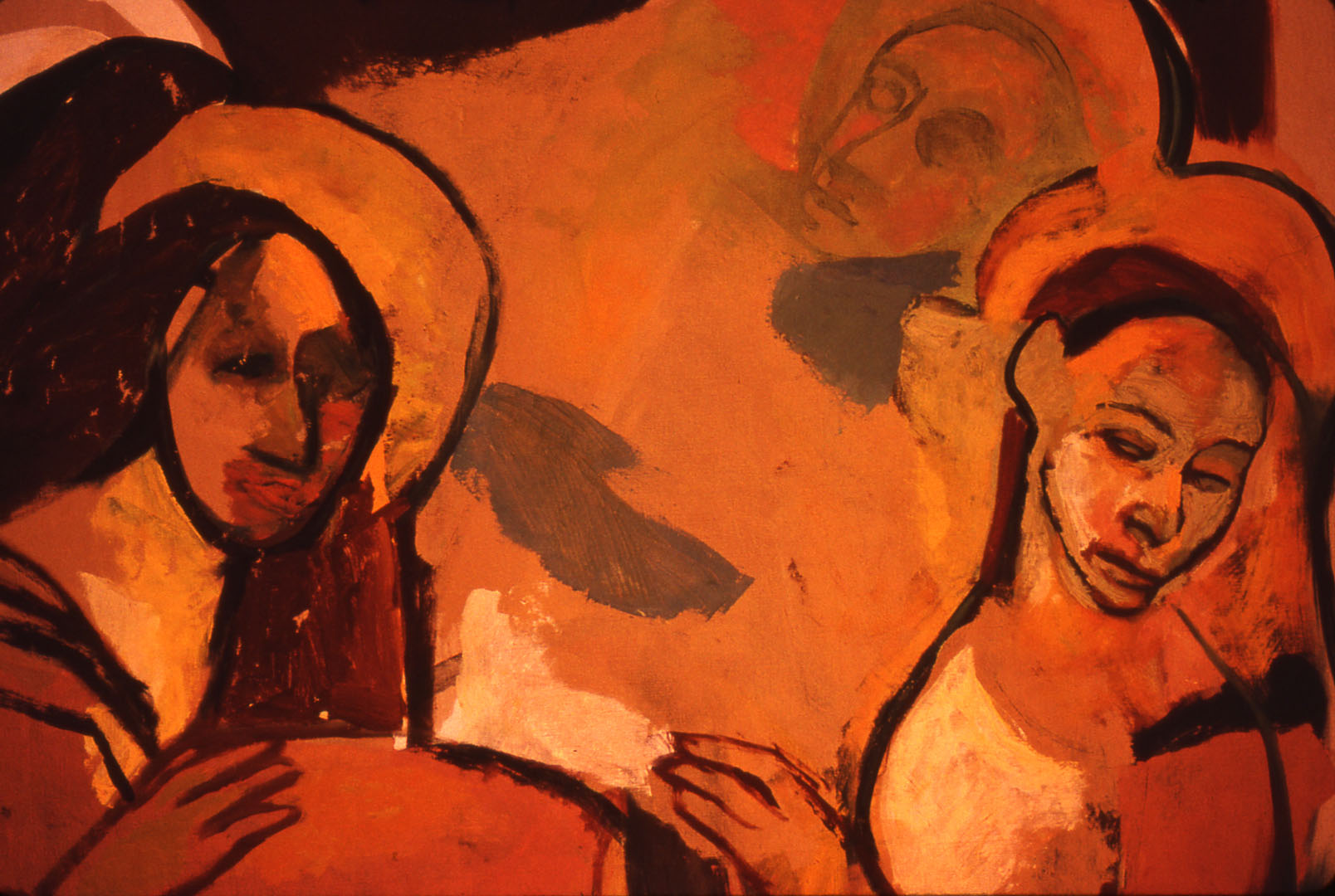 Oratory Mural detail - the Annunciation